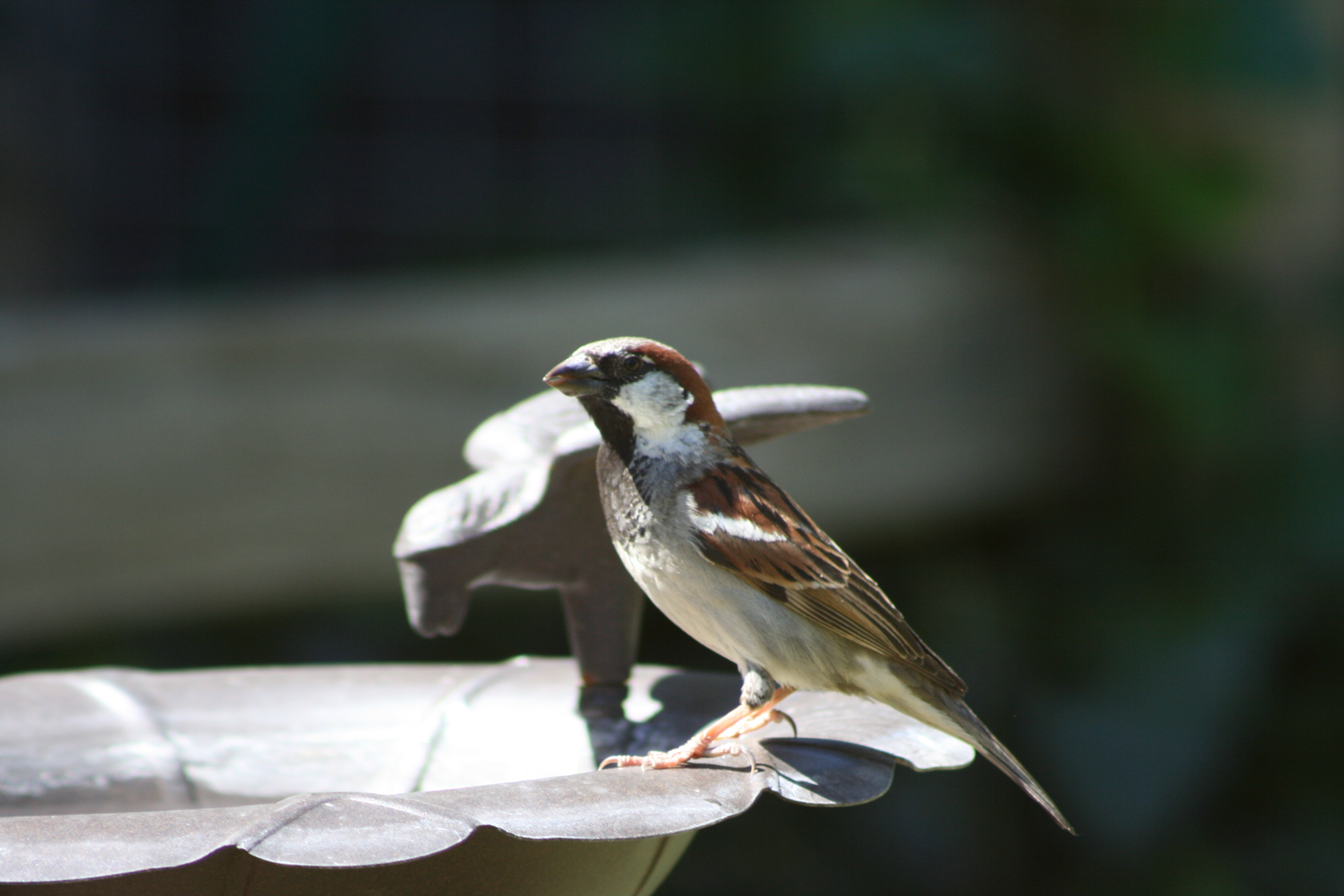 A male House Sparrow (Passer domesticus) at a bird bath, in Portage, Michigan